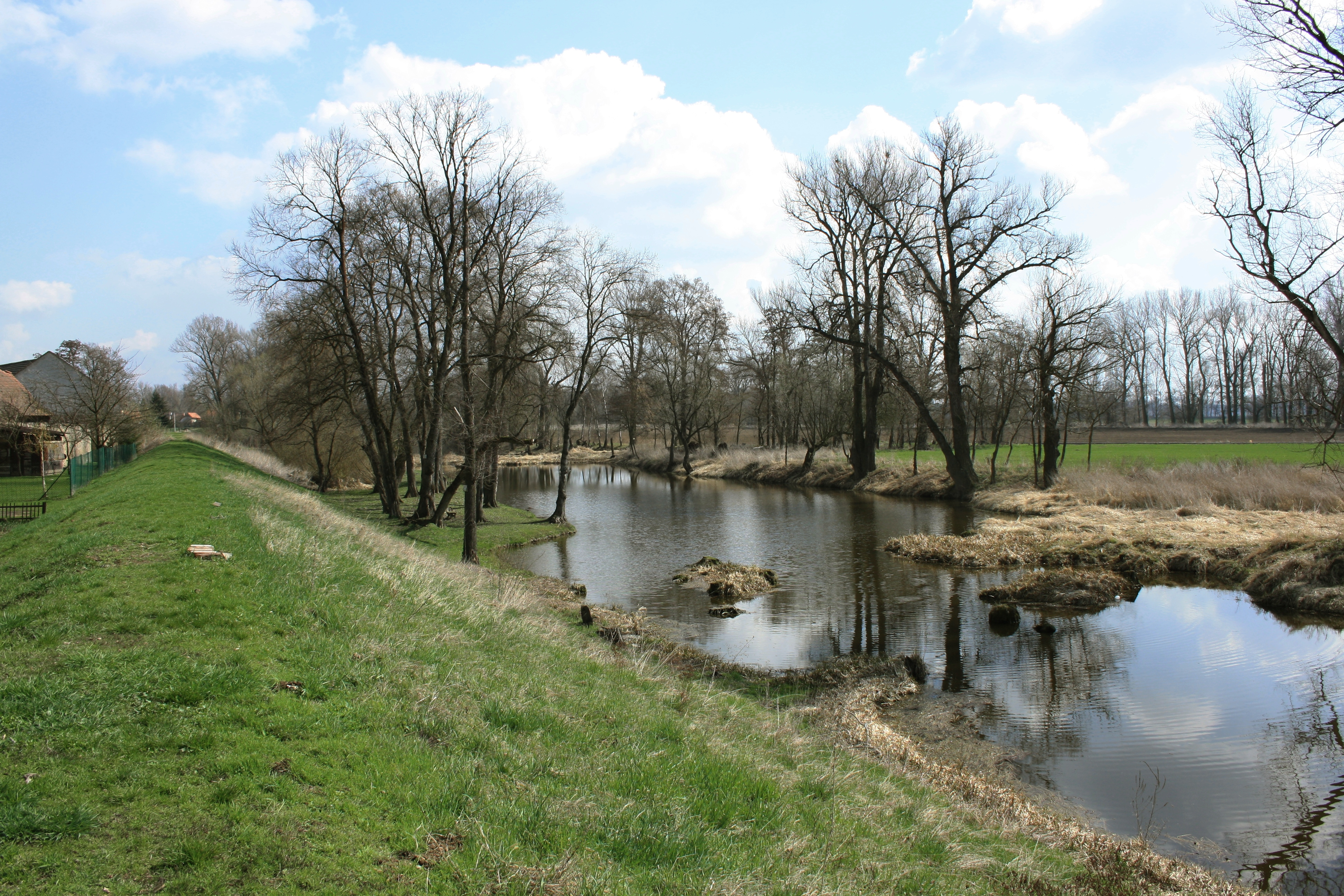 Anti-flood dam protecting Vrbno villages and some forests near Vltava river, Mělník District. Central Bohemian Region, CZ